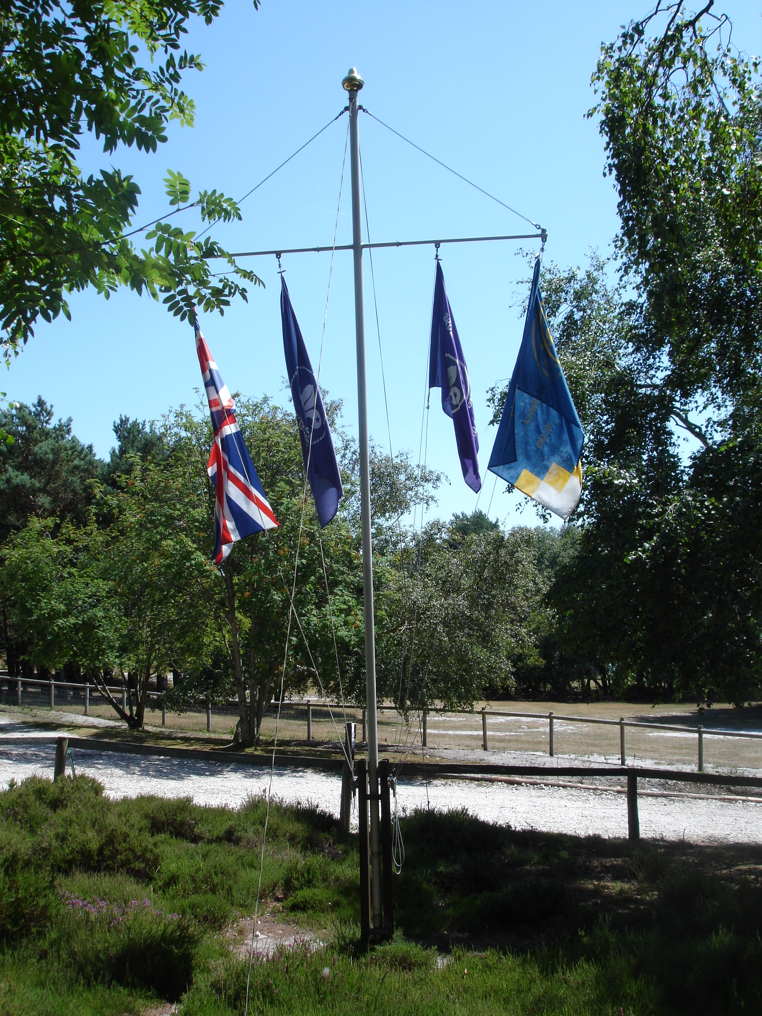 Brownsea Island